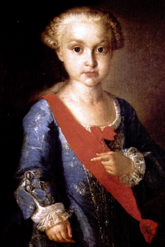 Infante Gabriel of Spain (1752-1788)